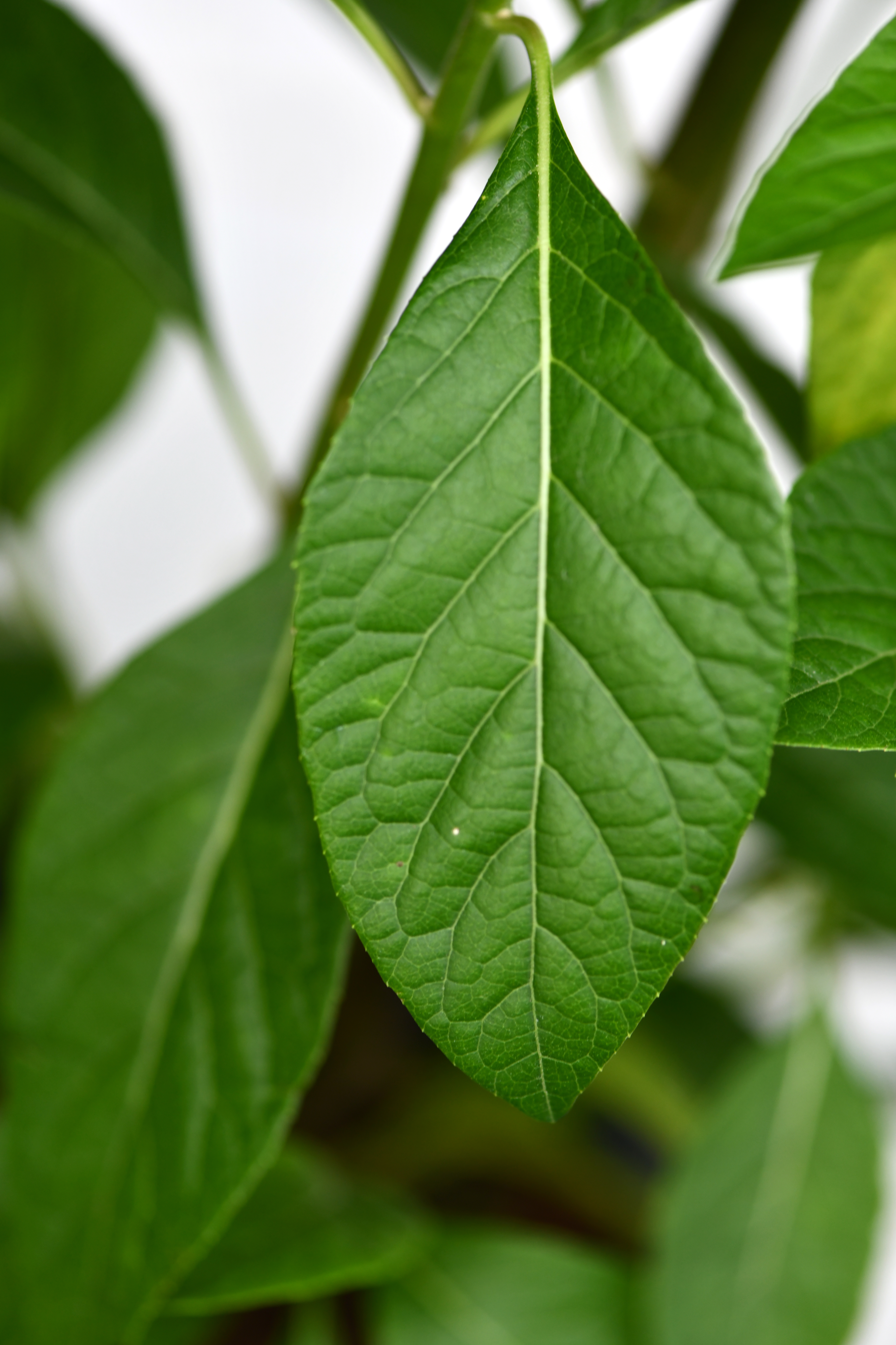 Bitterleaf หนานเฉาเหว่ย From Thailand. Herbal for Life.